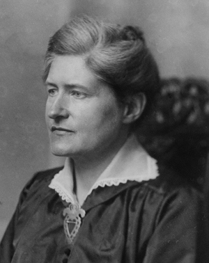 Lydia Wahlstrom